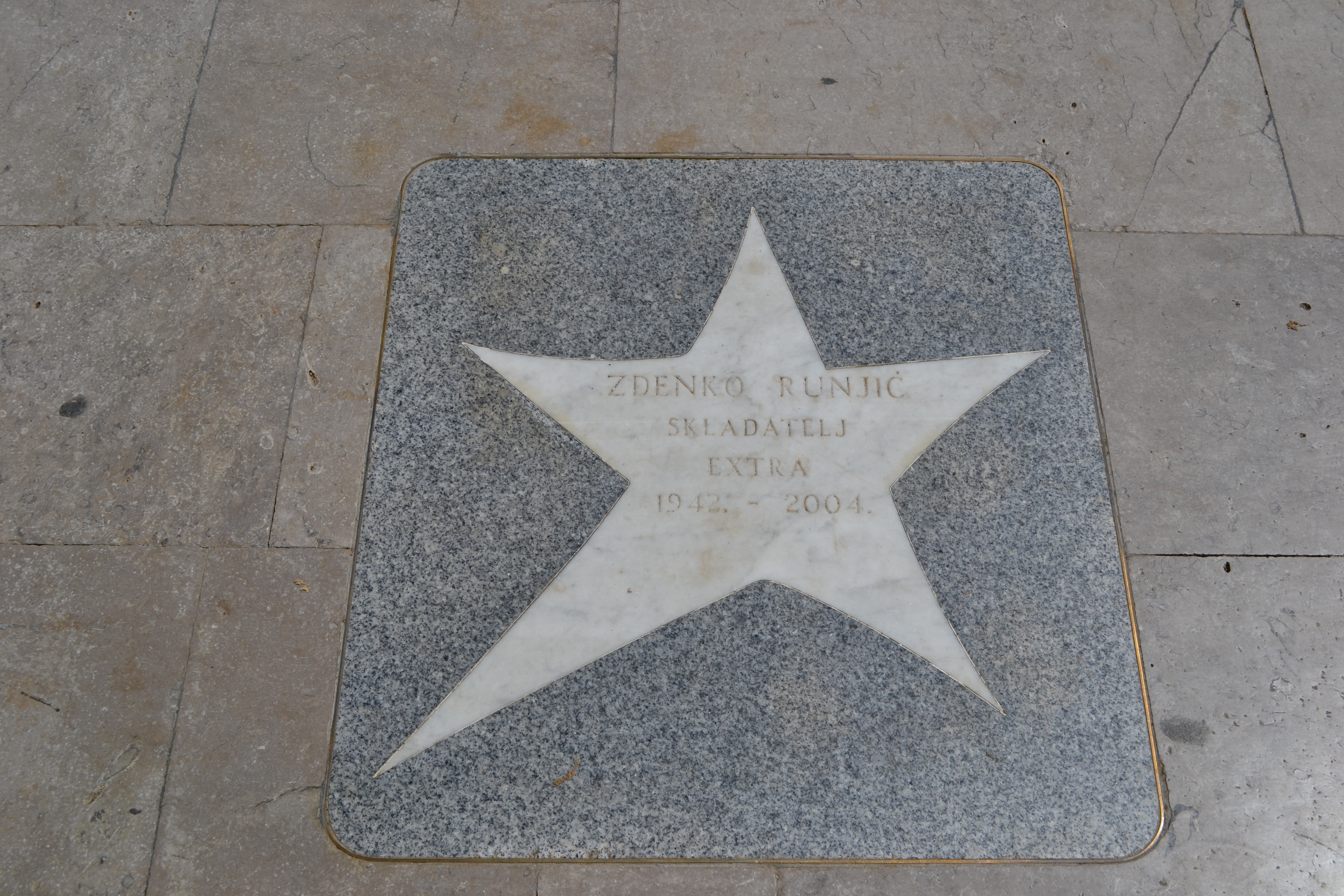 Croatian walk of fame with star of Zdenko Runjic - composer, Opatija, Croatia